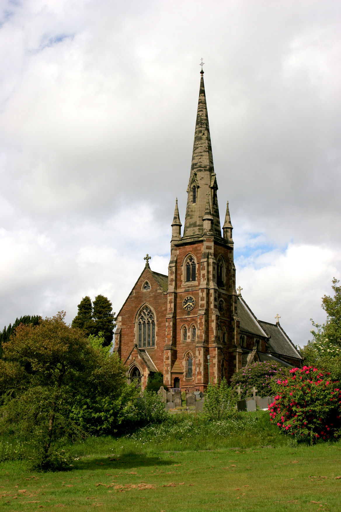 St John the Baptist Church, Keele, Staffordshire, UK. (1168x1752 px, 1,000,814 bytes)